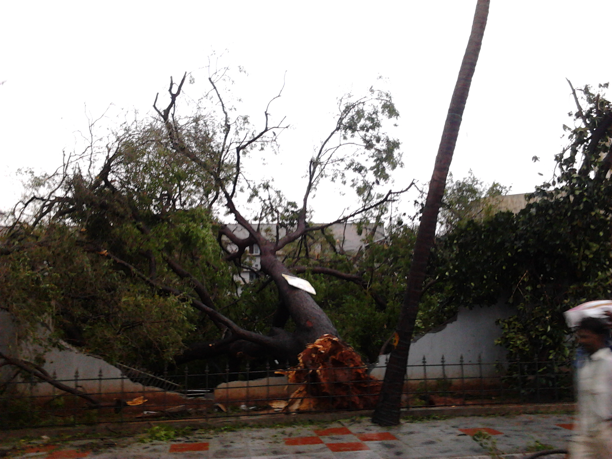 photo was captured by Dr.Rks sivasankar. showing an uprooted tree after cyclone THANE hits puducherry